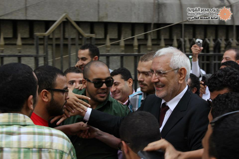 يوم تسليم توكيلات حزب مصر القوية